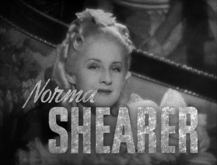 Cropped screenshot of Norma Shearer from the trailer for the film Marie Antoinette